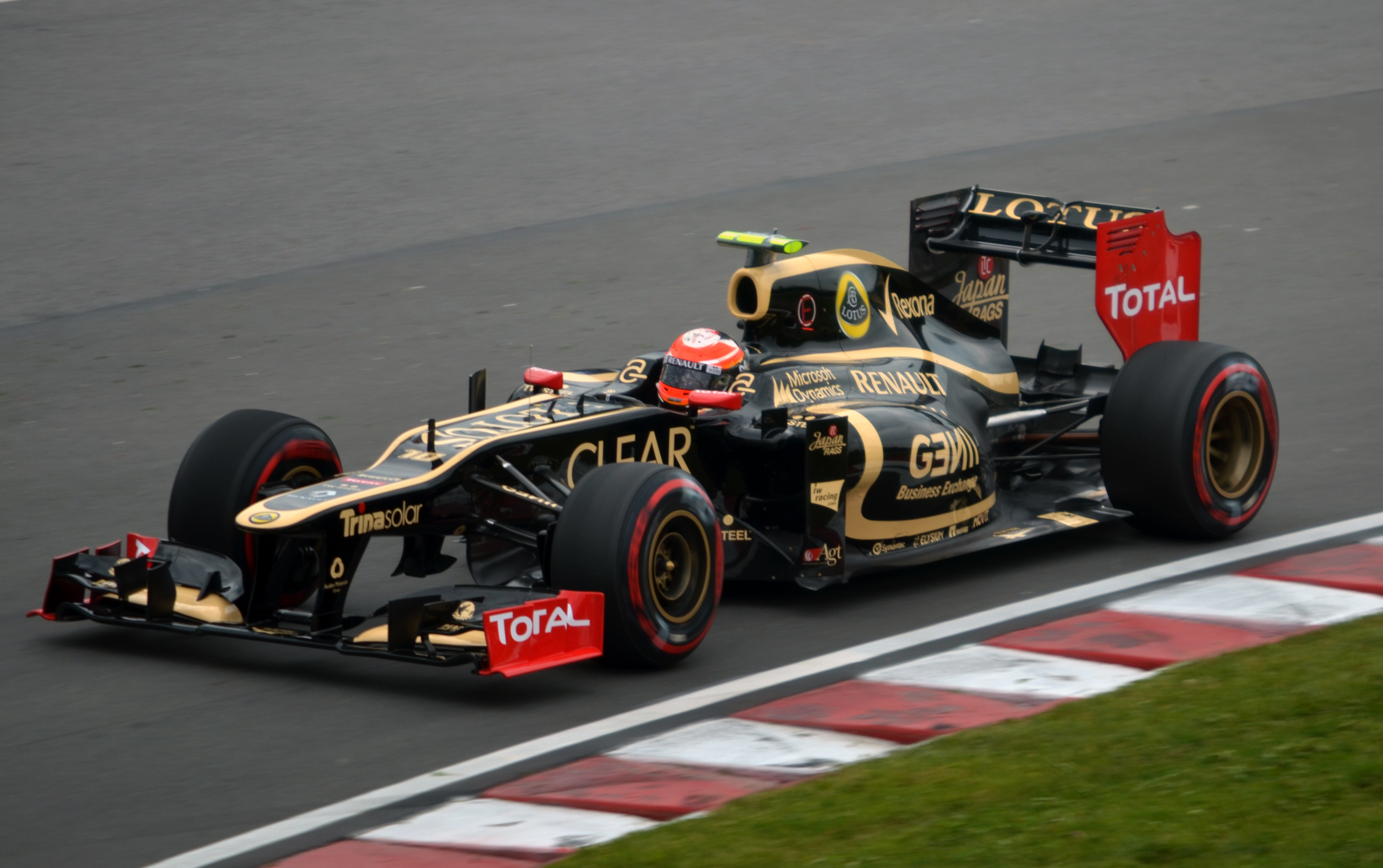 Romain Grosjean in the Lotus - Renault E20 at turn 9 of Circuit Gilles Villeneuve during first practice for the 2012 Canadian Grand Prix